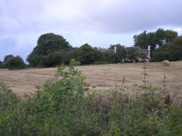 Radyr farm, Cardiff. Junction of Llantrisant road and Heol Isaf, Radyr, Cardiff.